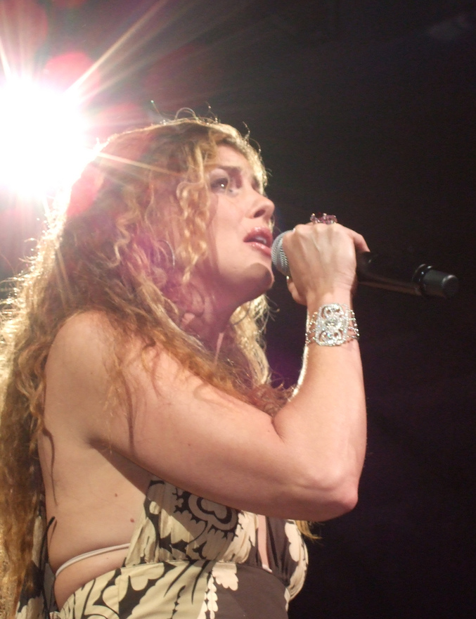 Faith Hill in concert in Dallas on the Soul 2 Soul II tour